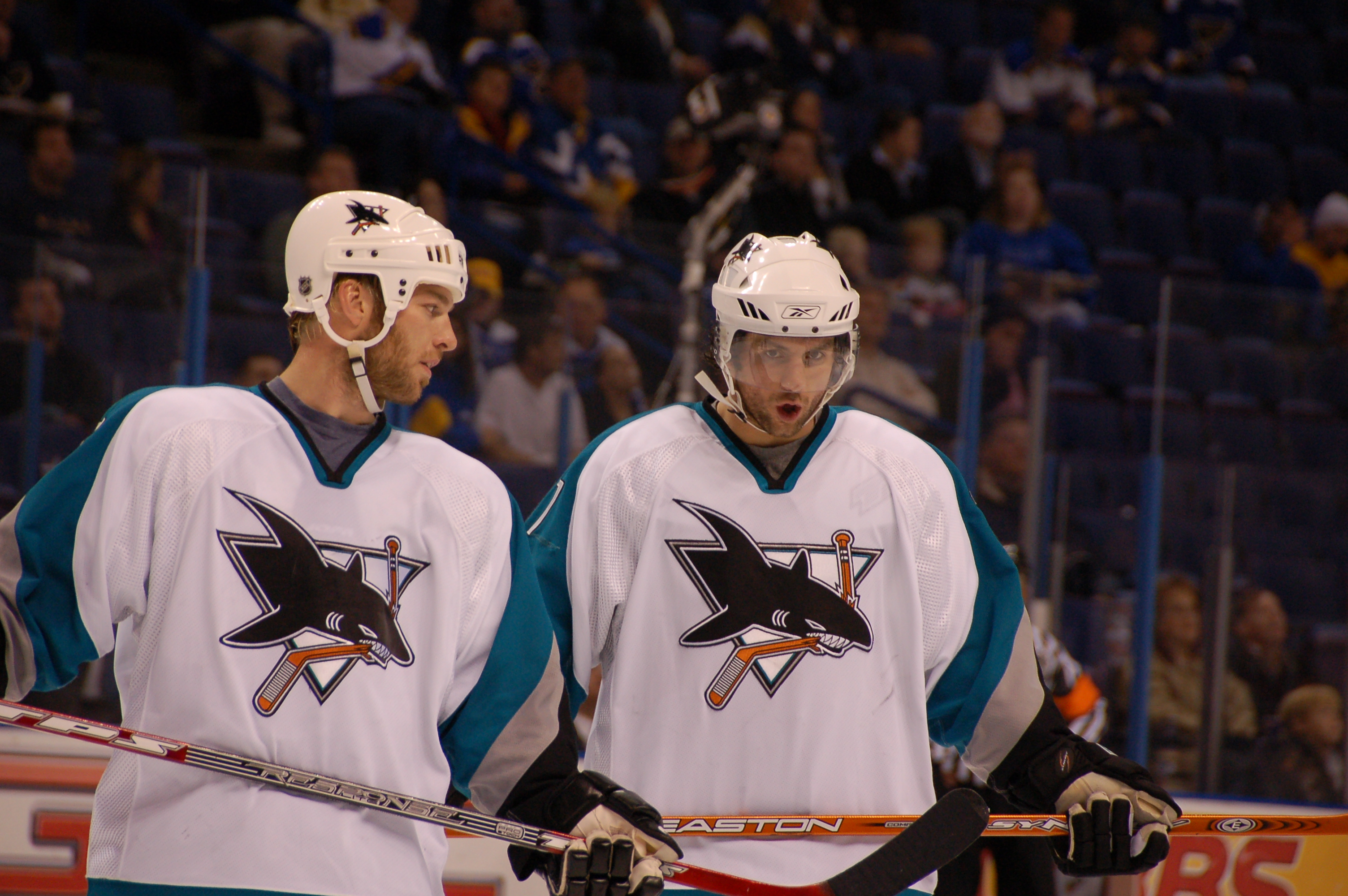 Mark Smith (left) and Curtis Brown (right) of the San Jose Sharks in a game vs. St. Louis Blues, November 28, 2006